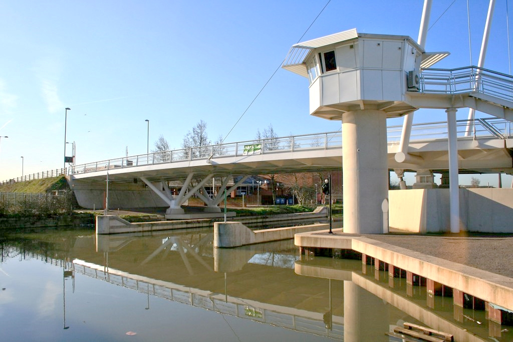 High Orchard Lift Bridge